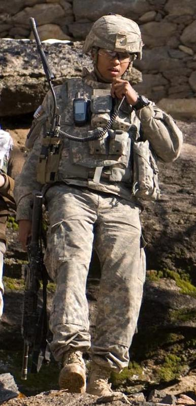 1st Lt. Kareem F. Hernandez, a New York and New Jersey resident and also 2nd Platoon Leader in Able Company, 2nd Battalion, 503rd Infantry Regiment (Airborne), talks on the radio while village elders and a Afghan National Policeman walk down the mountain during a patrol to Omar in Kunar Province Afghanistan Jan. 11.